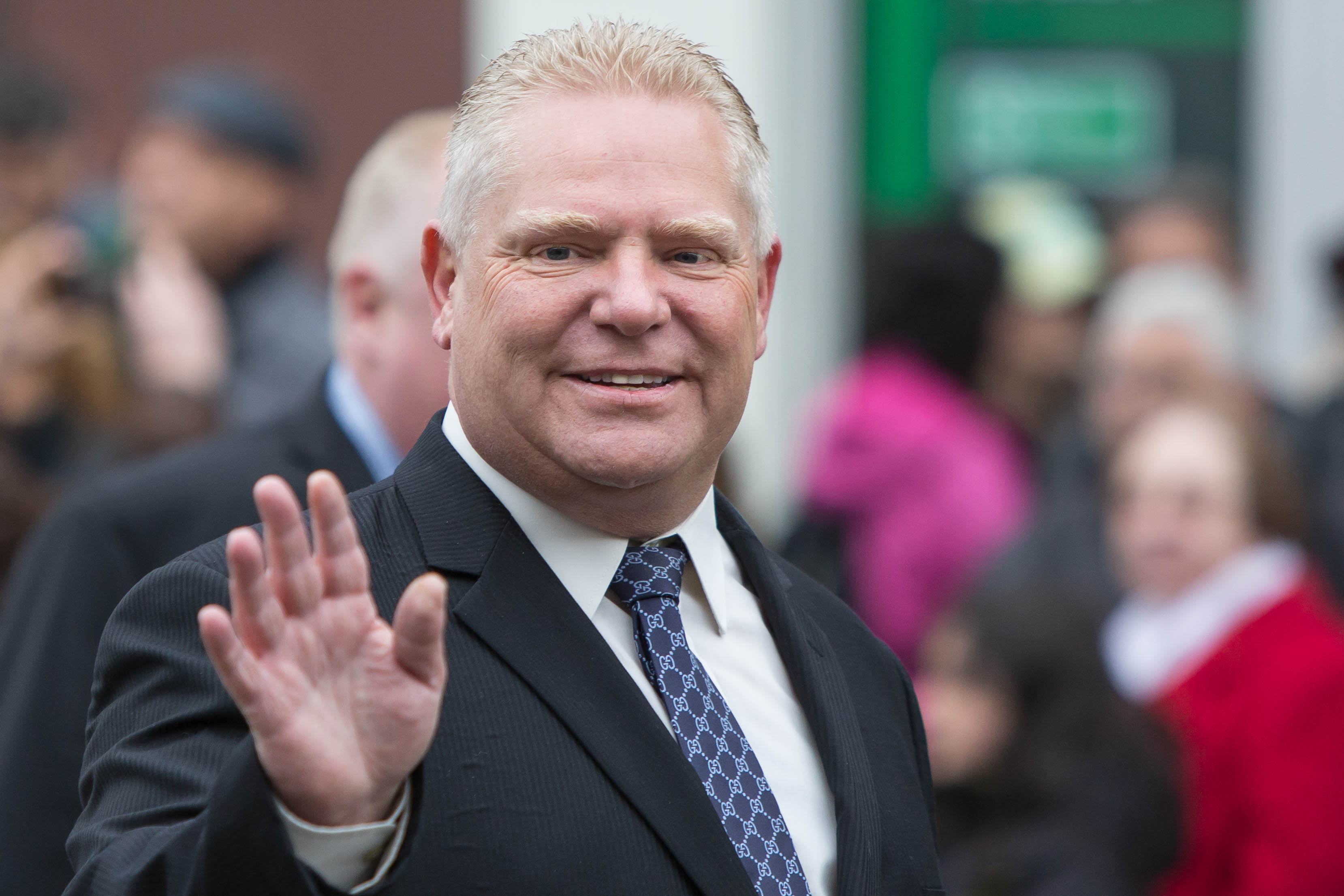 Doug Ford at the 2014 Good Friday procession in East York, Canada